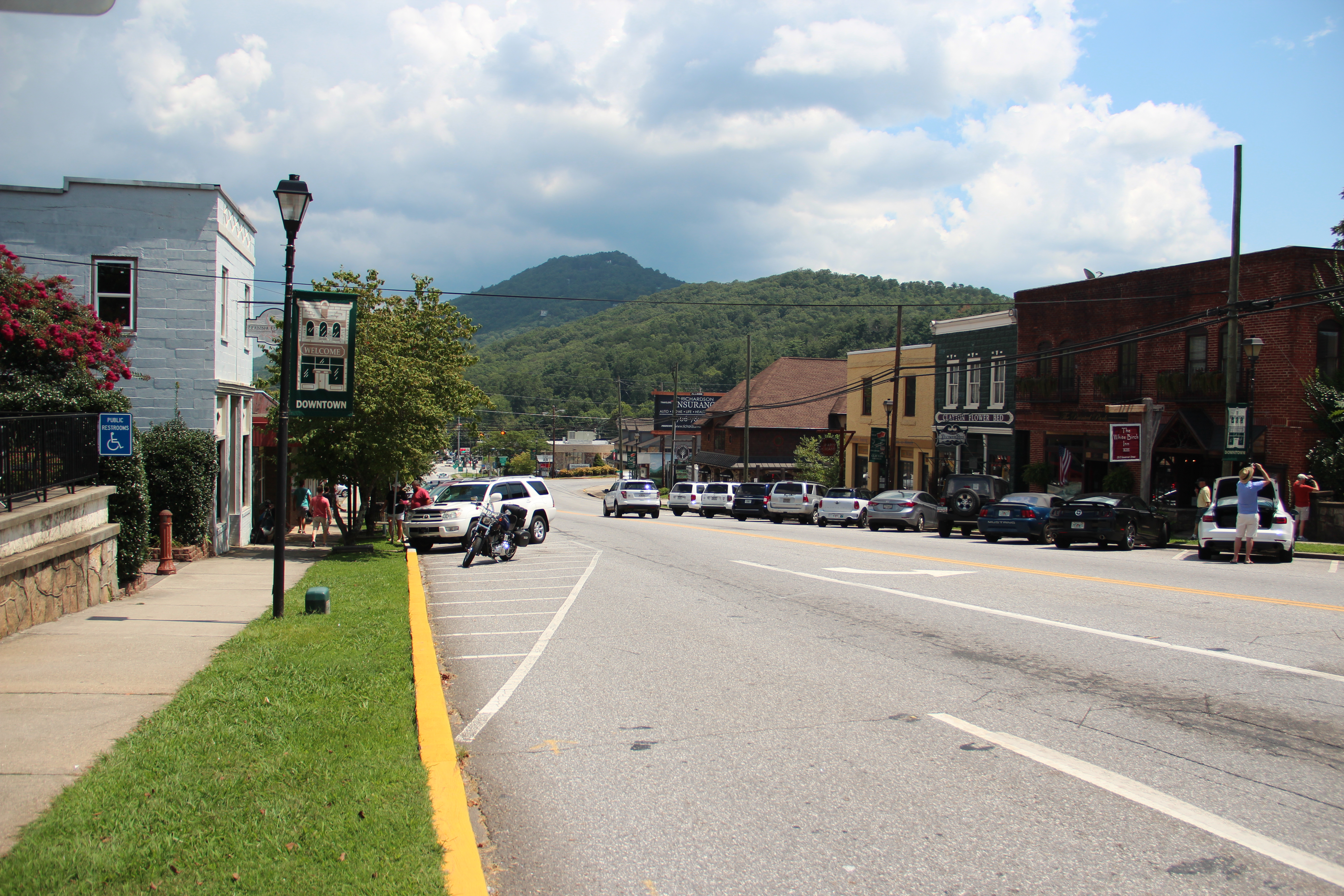 Savannah Street, Clayon, GA around 2pm during the August 21 eclipse